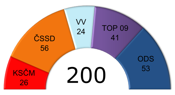 Czech parliamentary election 2010 - results in mandates.